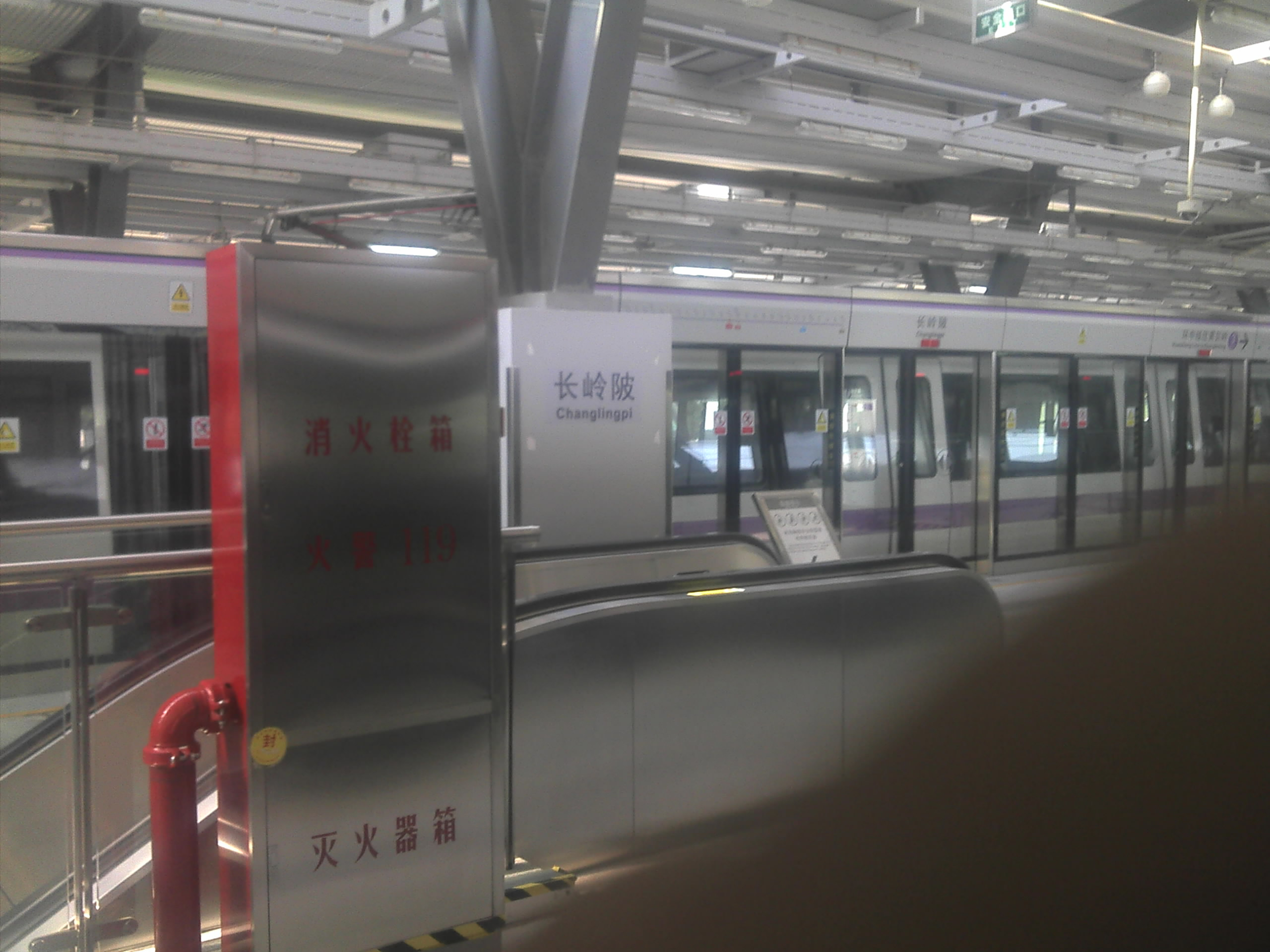 This photo was taken as Nov 19, 2011.